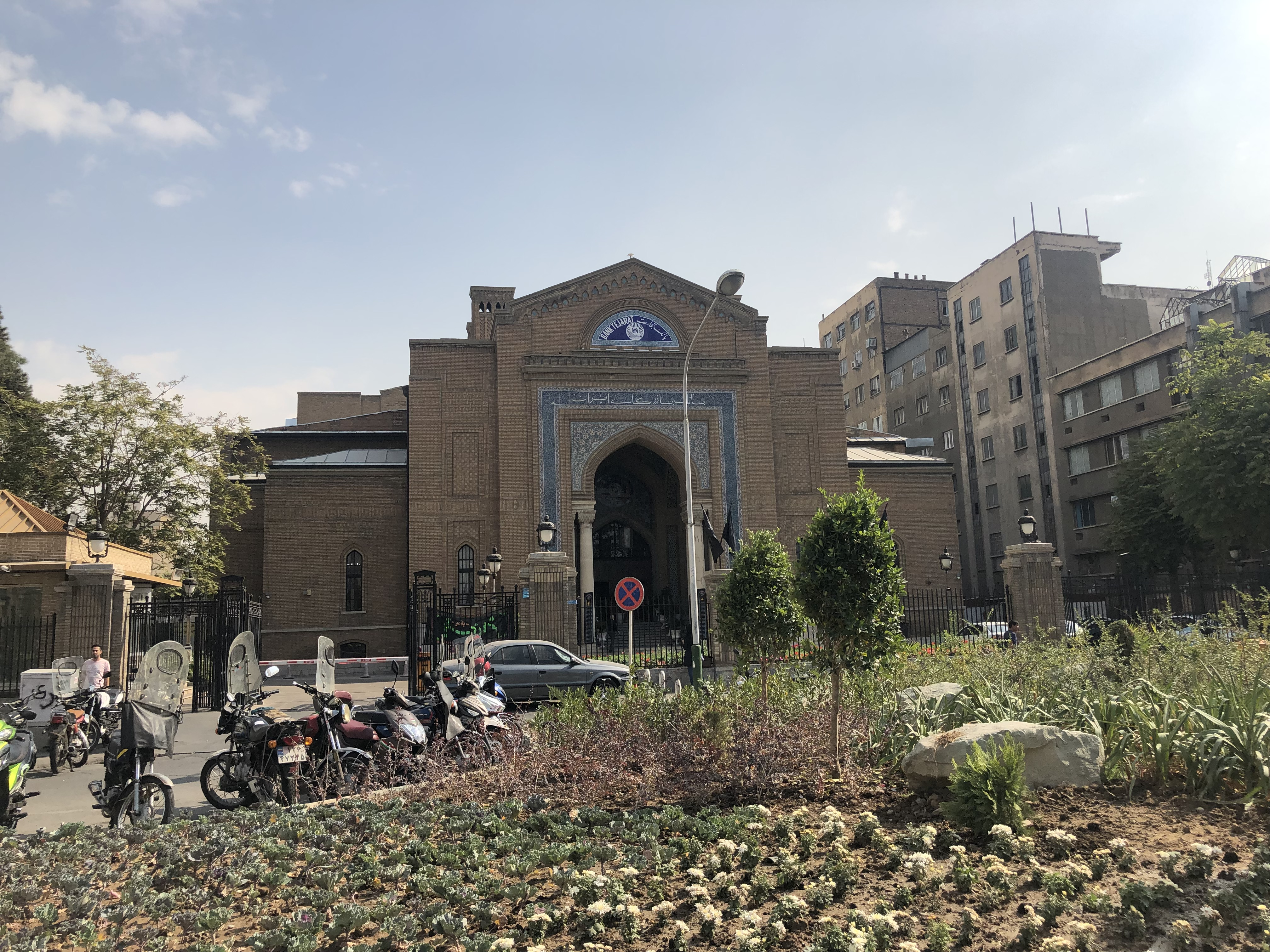 Bank Tejarat Old Building